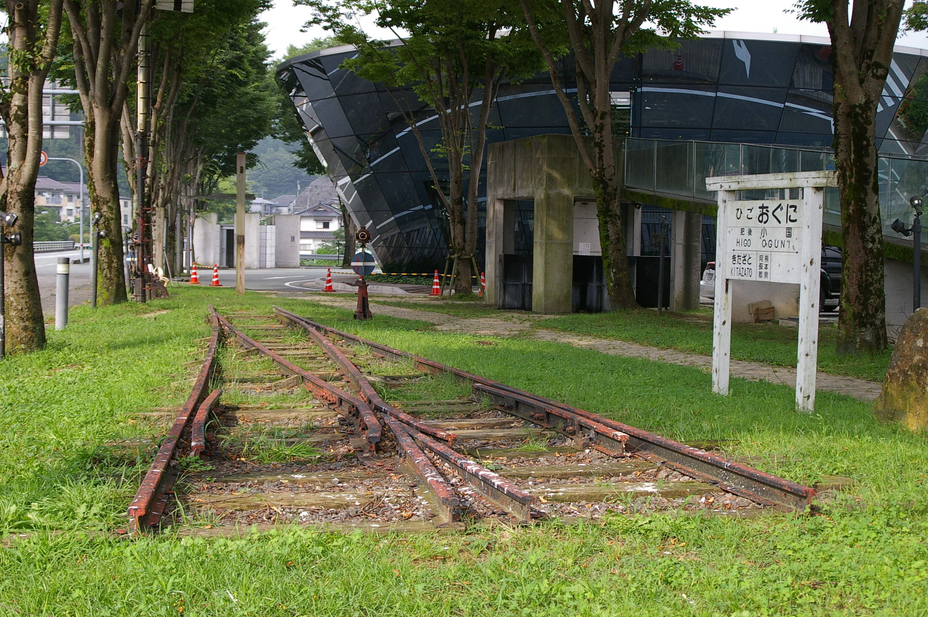 A monument of Higo-Oguni station, Kumamoto Pref., Japan